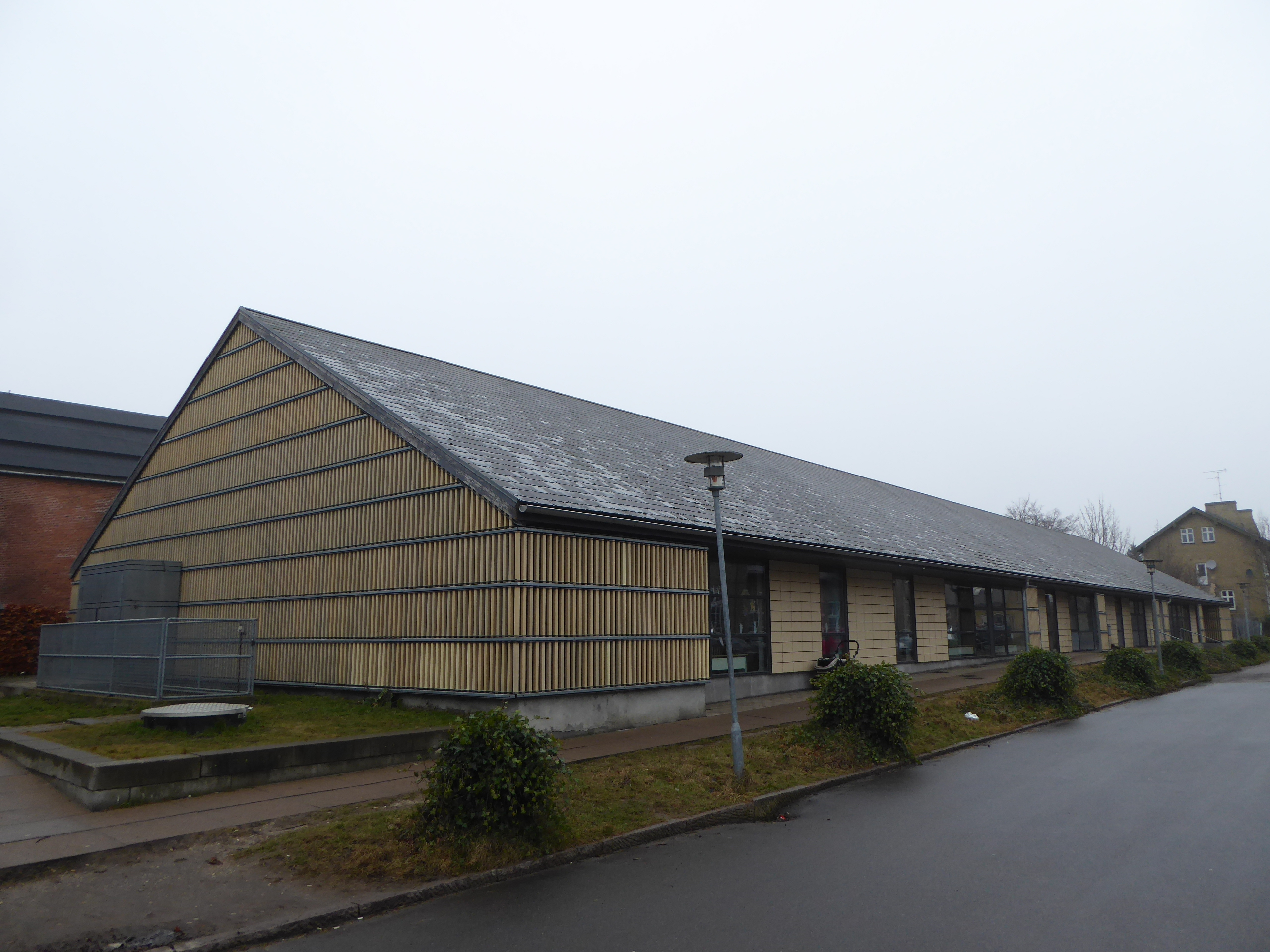 The day-care institution Børnehuset Flora at Carl Nielsens Allé in Østerbro in Copenhagen.